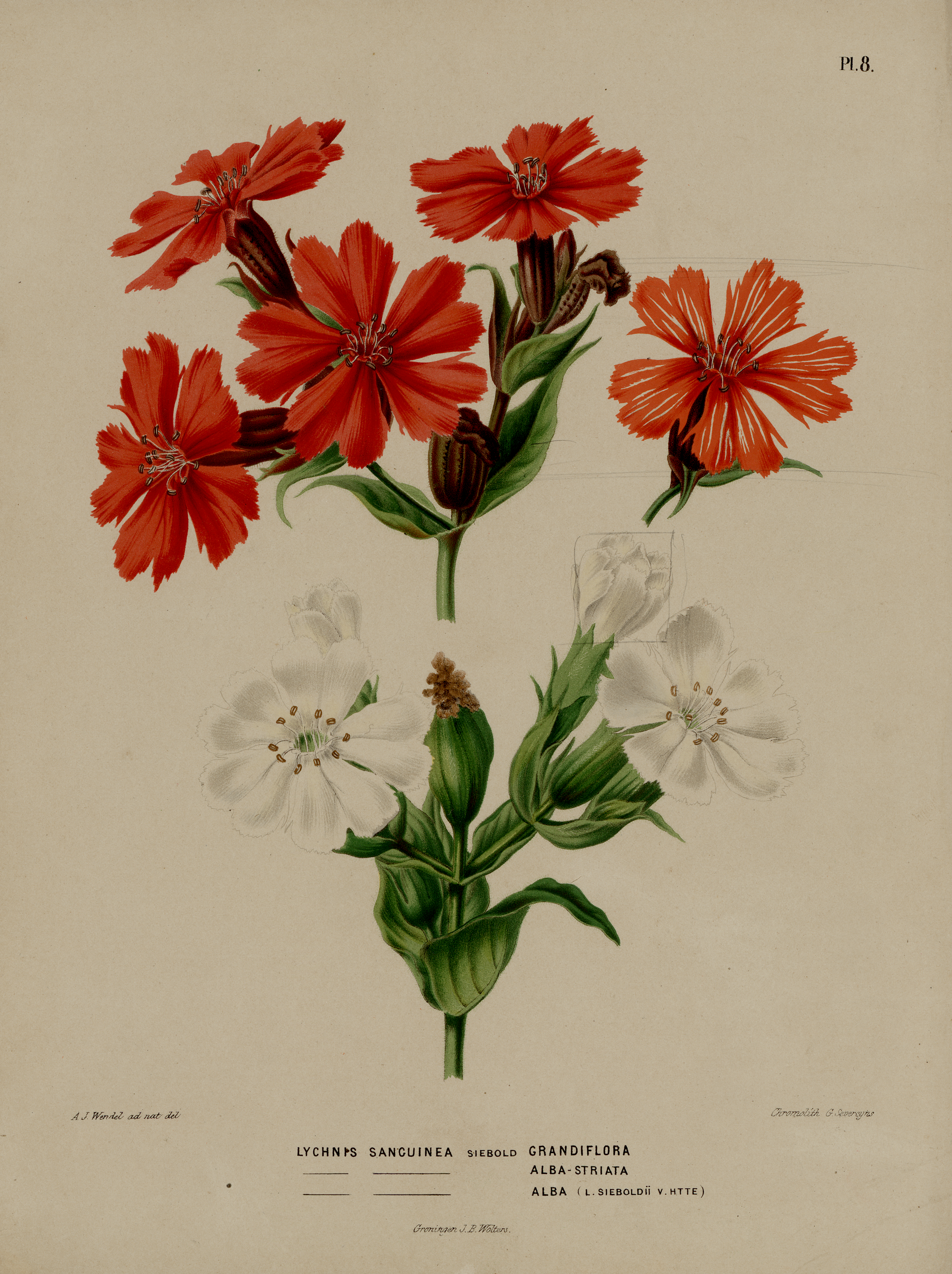 Plate 5: Lychnis grandiflora. Image by Abraham Jacobus Wendel, from the Dutch language book Flora: afbeeldingen en beschrijvingen van boomen, heesters, éénjarige planten, enz. voorkomende in de Nederlandsche tuinen by H. Witte, illustr. by A.J. Wendel. Groningen: Wolters (1868) - converted from tif-file. The Plate is wrongly numbered 8.